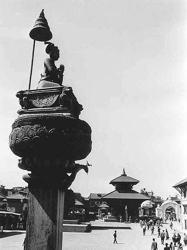 A statue in the main square of Bhaktapur